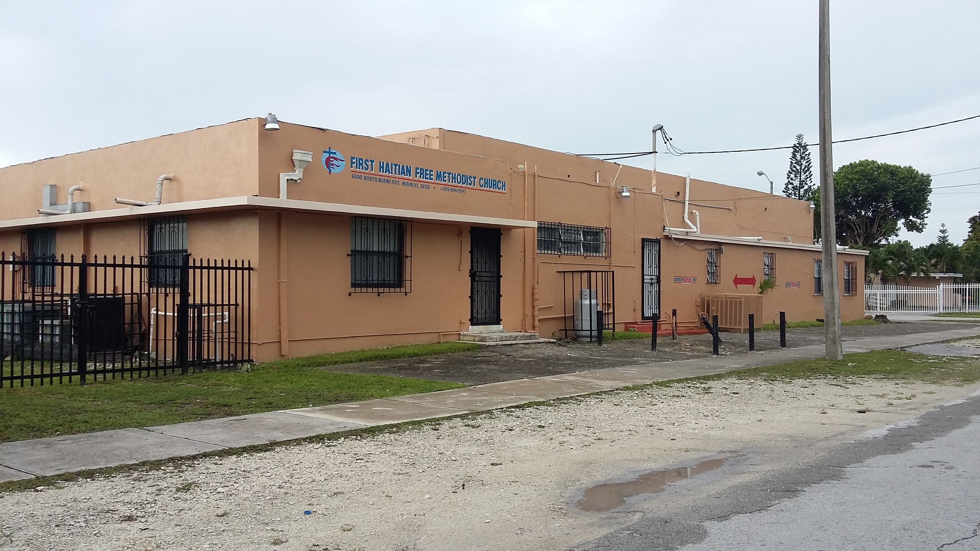 First Haitian Free Methodist Church, Miami, FL